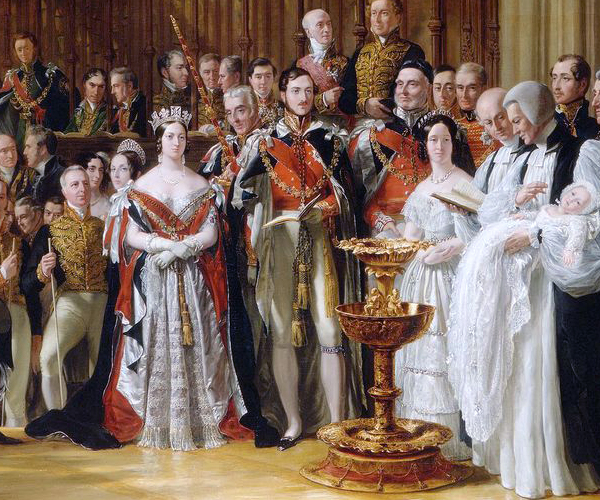 The Christening of The Prince of Wales, 25 January 1842